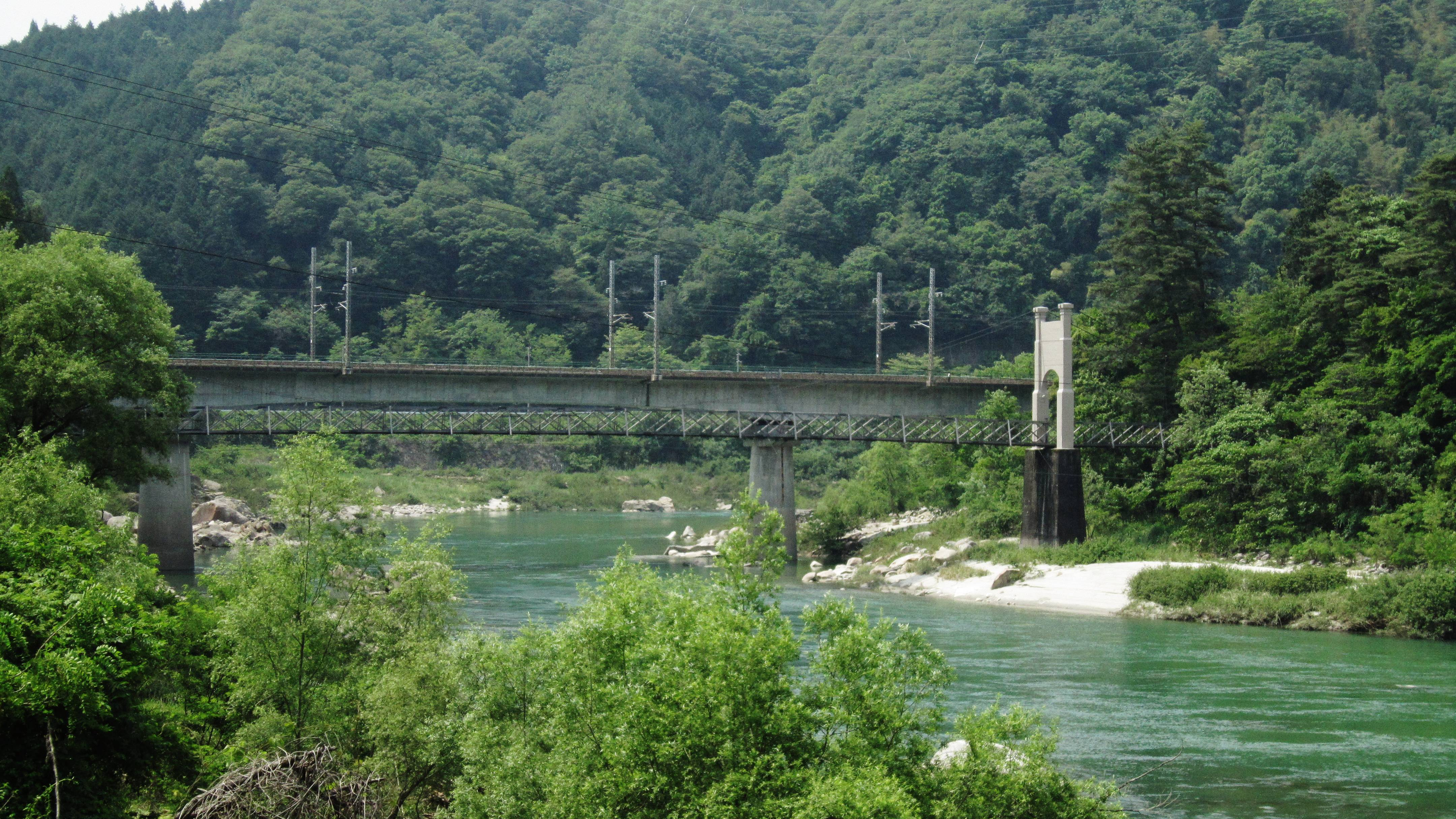 Taikakubashi Bridge.